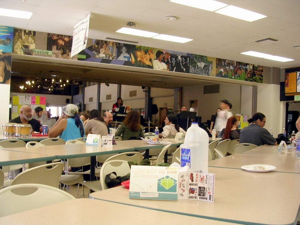 A light crowd sitting at the Long Beach City College (Liberal Arts Campus) cafeteria while a live jazz band performs on stage. The photograph was taken with a Nikon Coolpix e3200 digital camera and edited (for brightness, contrast, color balance and smudging) using ArcSoft PhotoStudio 5.5